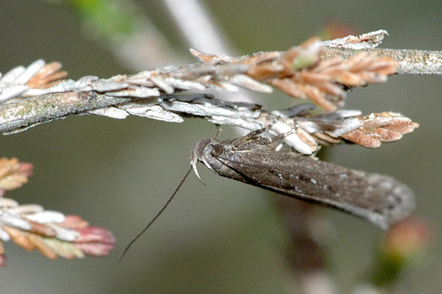 Picture taken in Commanster, Belgian High Ardennes . Species: Neofaculta ericetella